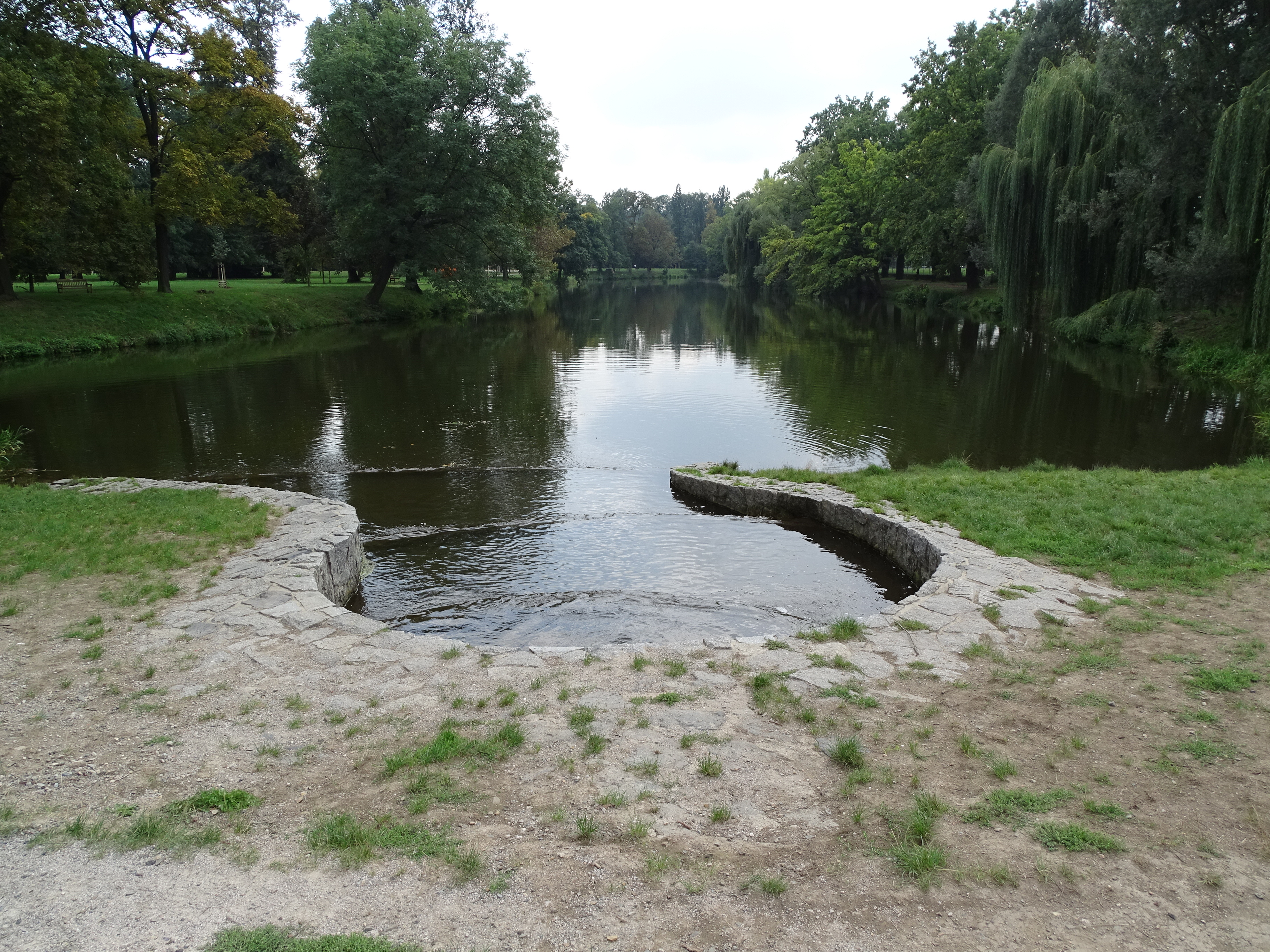 Prague-Bubeneč, Czechia. Stromovka, Malá říčka.